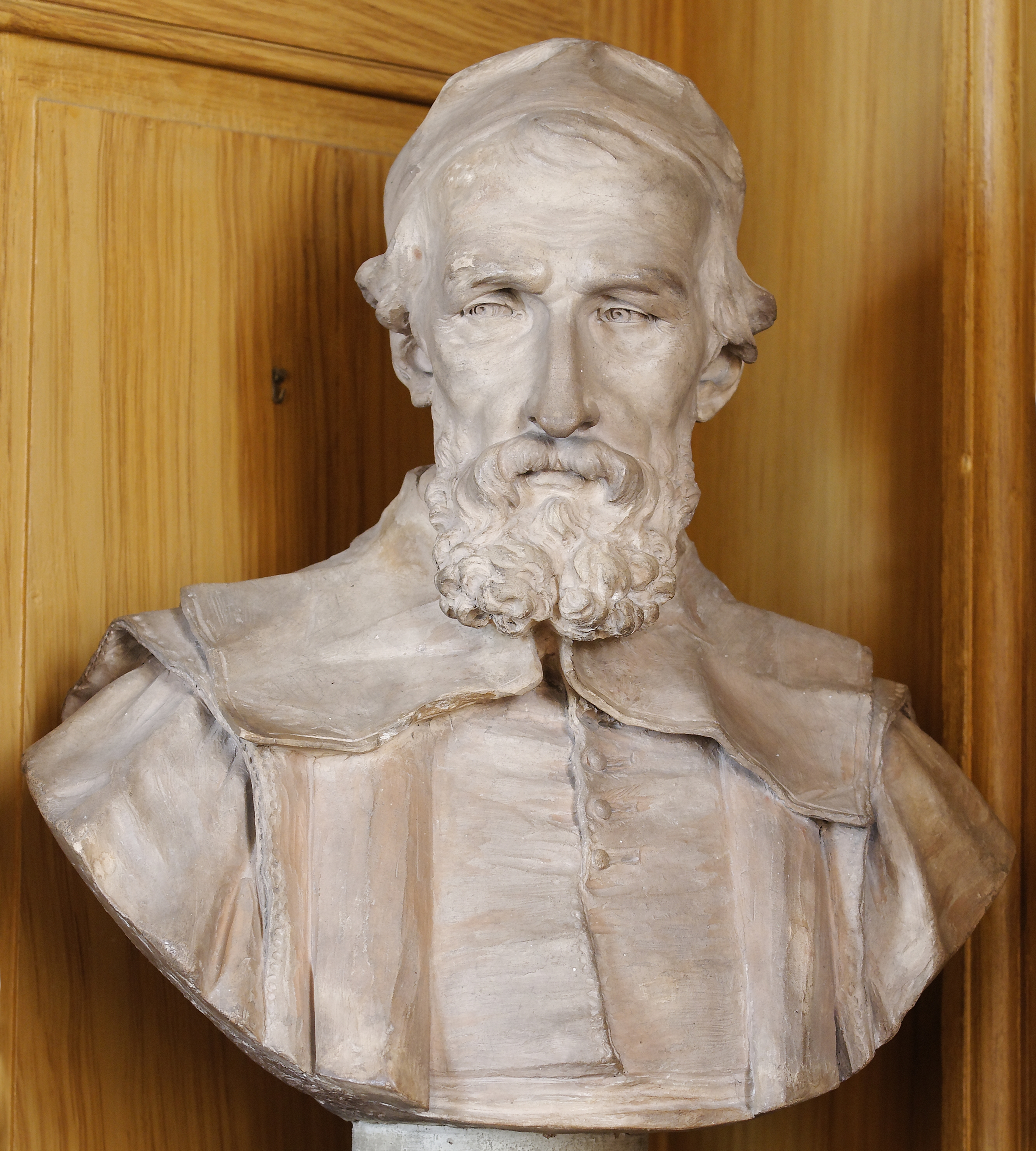 Terracotta bust of Nicolas-Claude Fabri de Peiresc by Jean-Jacques Caffieri, 1787. Reading Room of the Bibliothèque Mazarine, Paris.